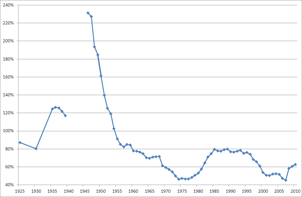 National debt of the Netherlands as percentage of GDP